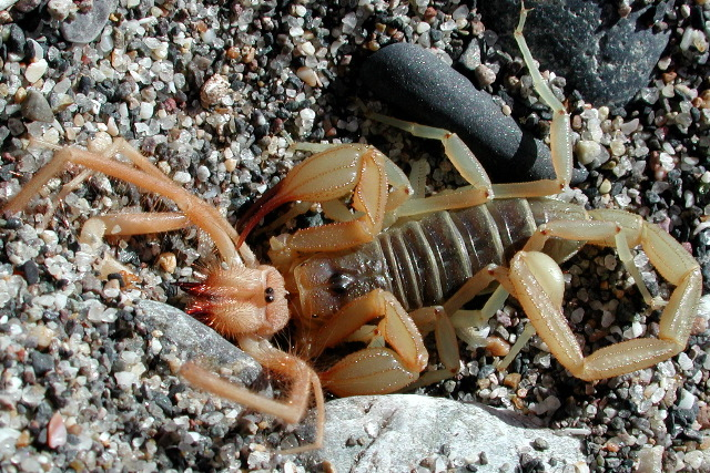 A scorpion eating a solifugid, from Baja California.